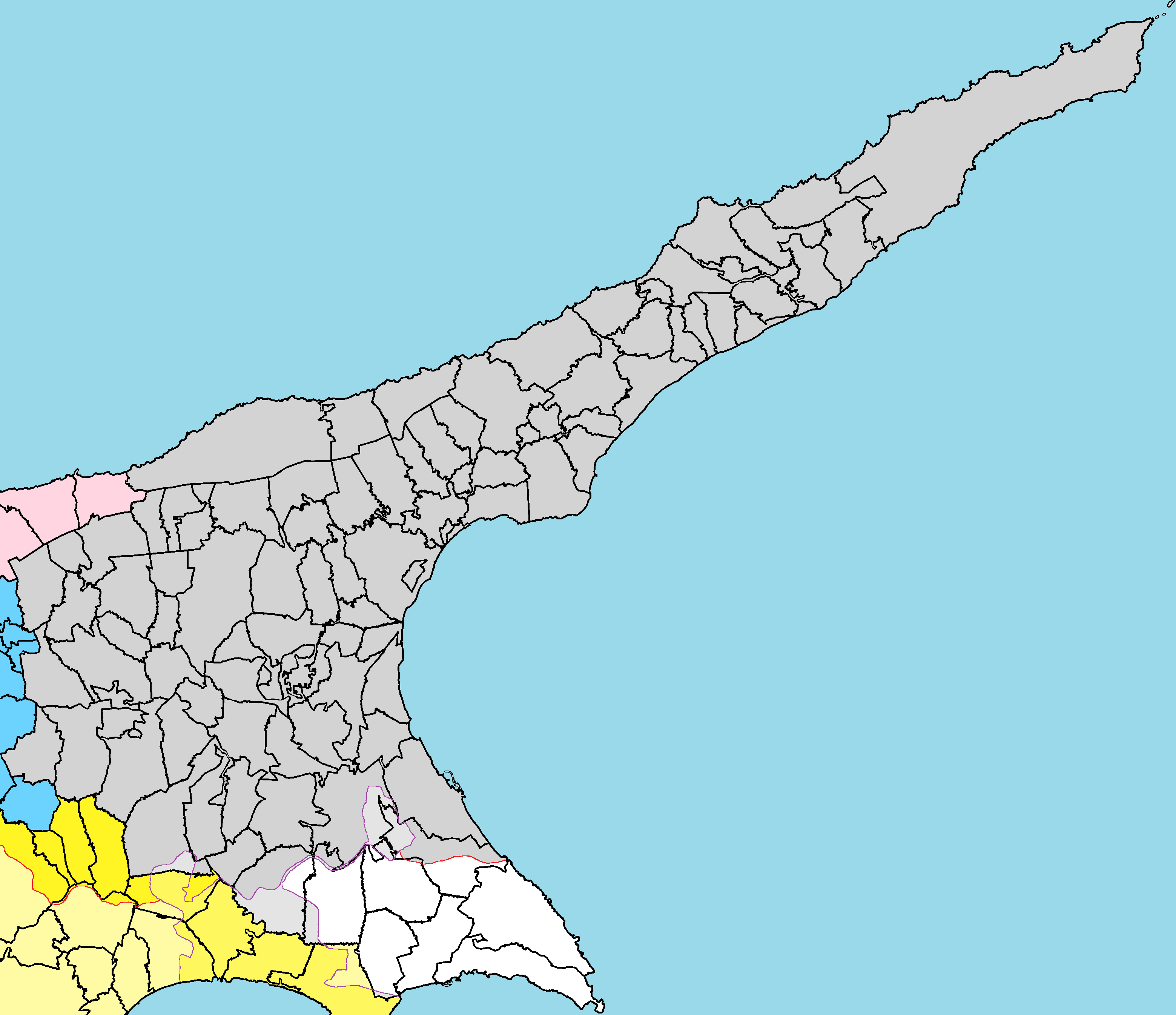 Famagusta District (de jure).